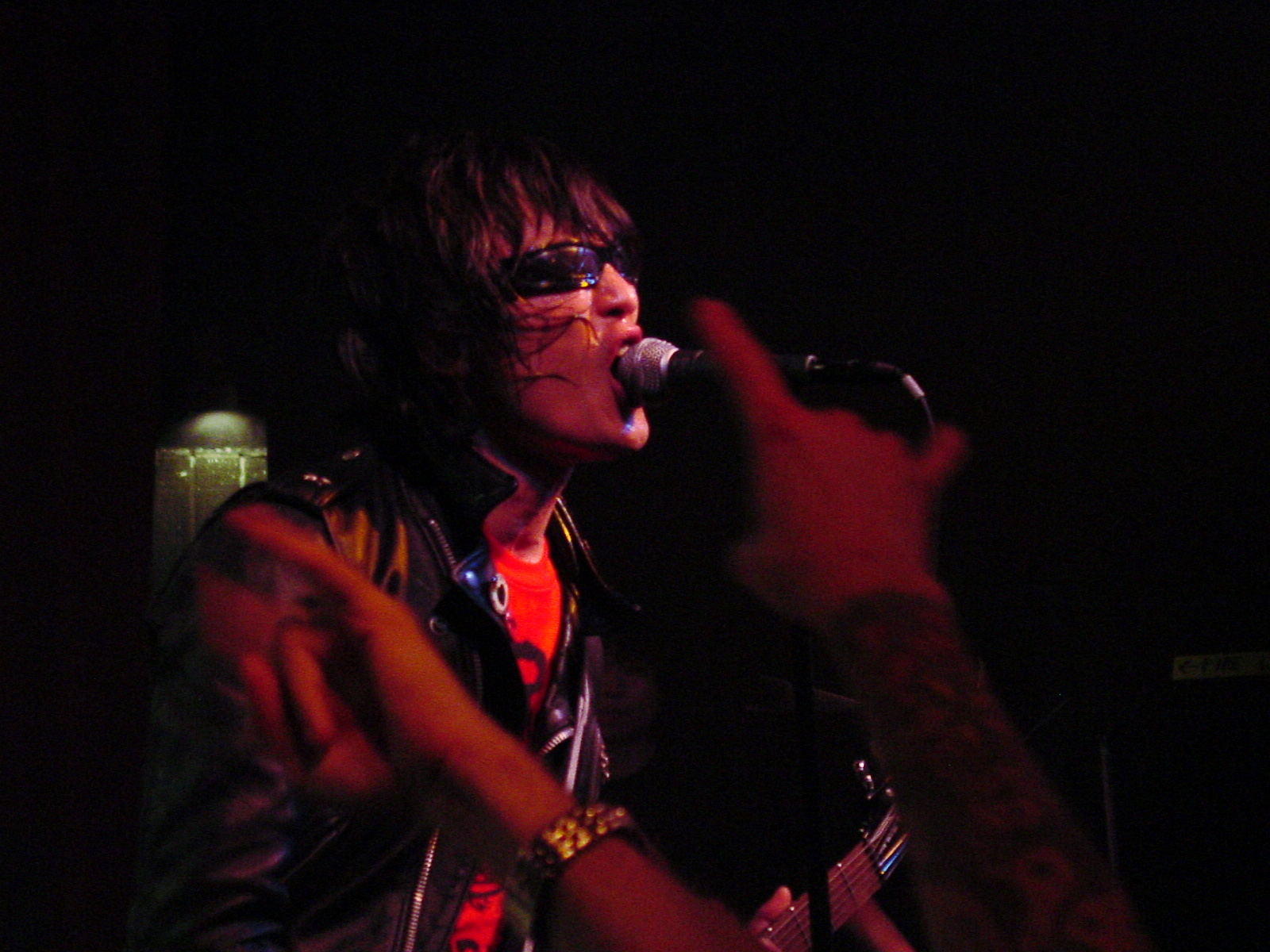 Seiji of Guitar Wolf, performing at the Exit/In in Nashville, Tennessee.